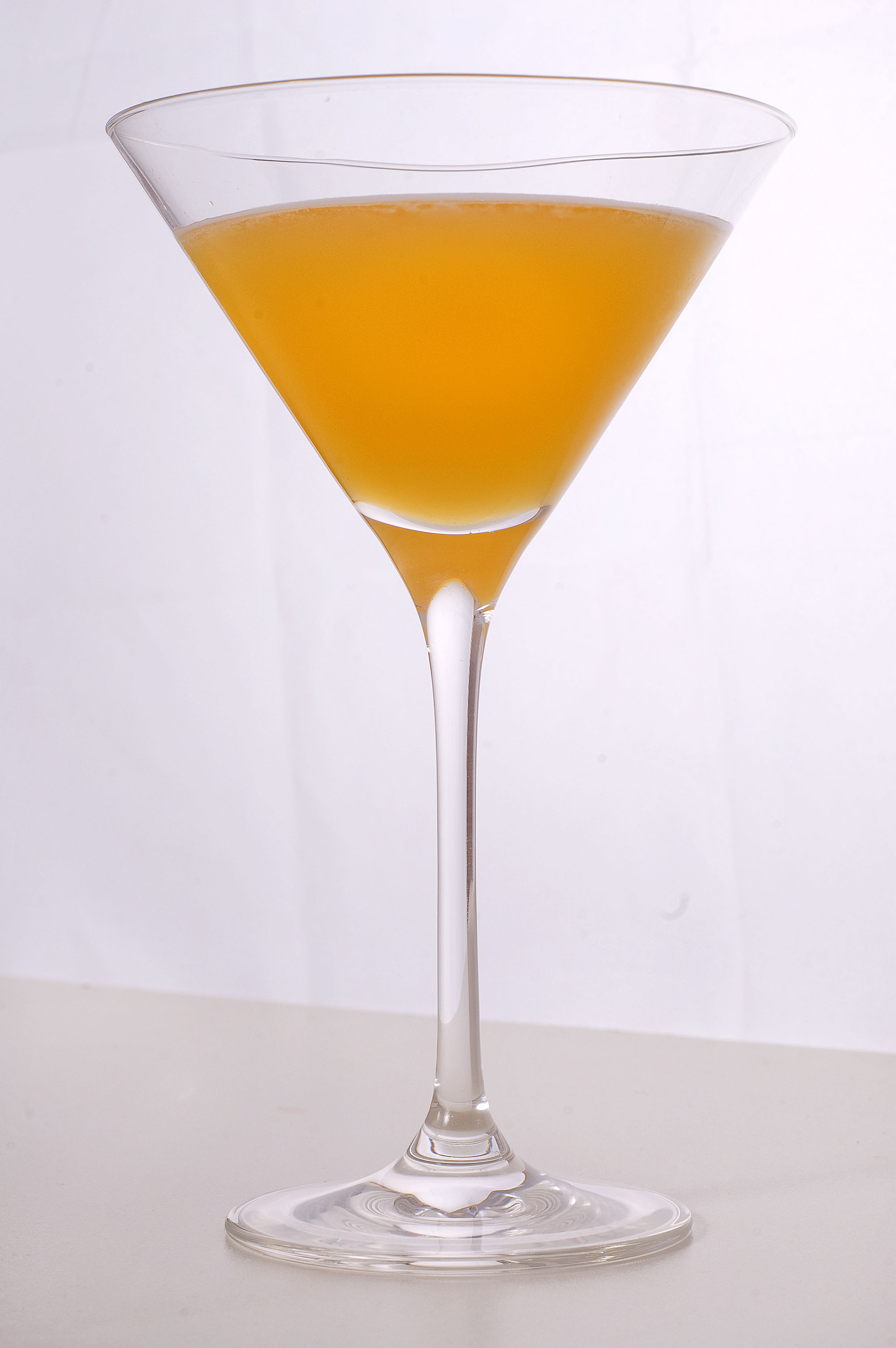 Recipe can be found at